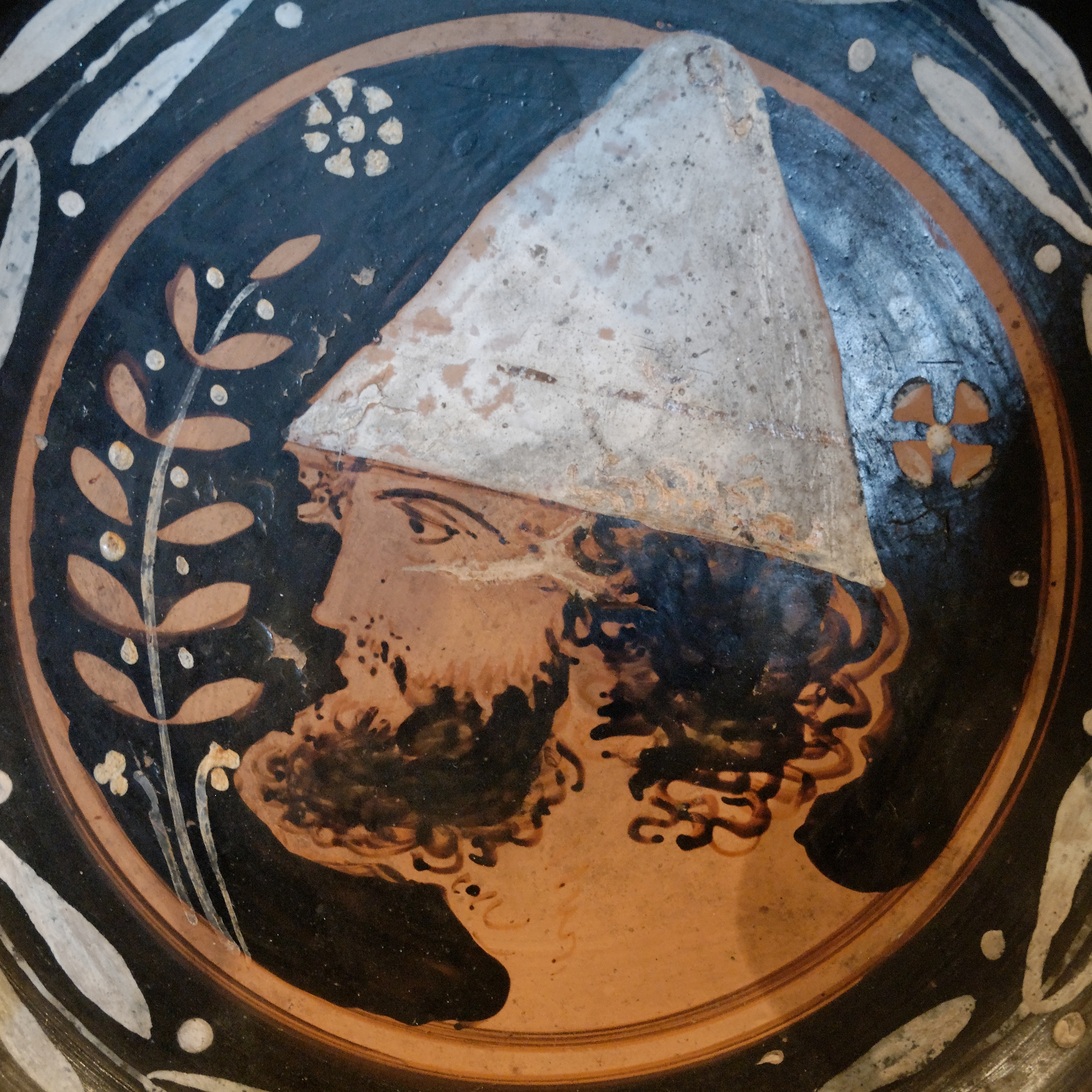 Man wearing the pilos (conical hat). Tondo of an Apulian red-figure plate, third quarter of the 4th century BC.